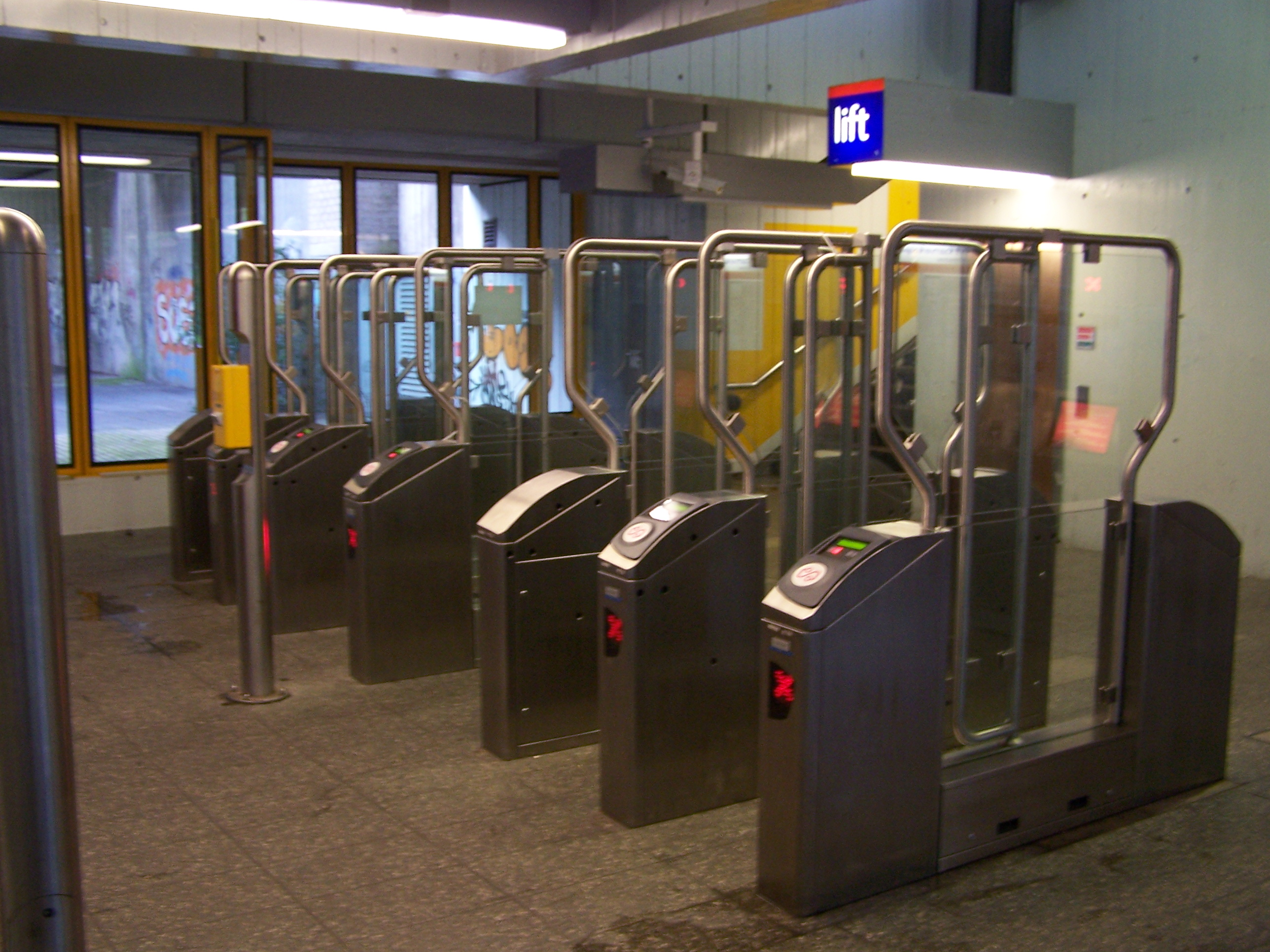 This picture depicts the Amsterdam Metrostation Venserpolder. Author:Mig de Jong